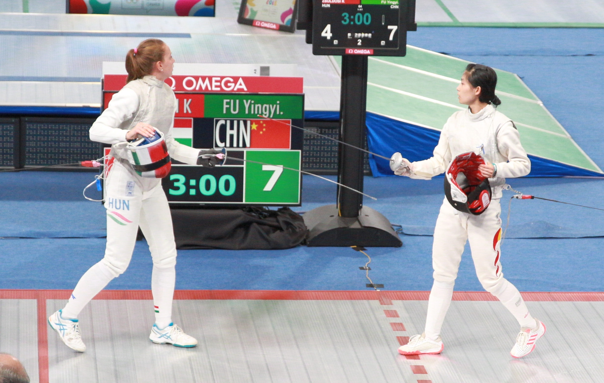 Fencing at the 2018 Summer Youth Olympics at 7 October 2018 – Girls' foil Round of 16 – Fu Yingying (CHN) Vs Karolina Zsoldosi (HUN) 15:10